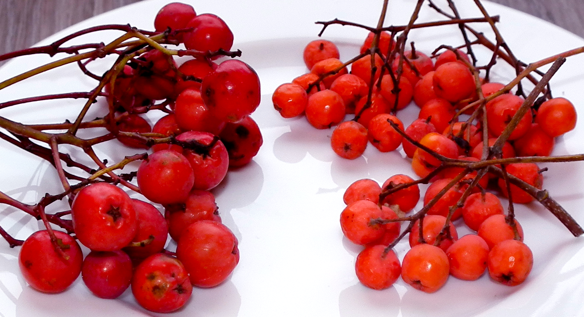 Comparison of Sorbus aucuparia fruit from an edible cultivar (left) and a roadside tree (right), both found in Berlin-Biesdorf